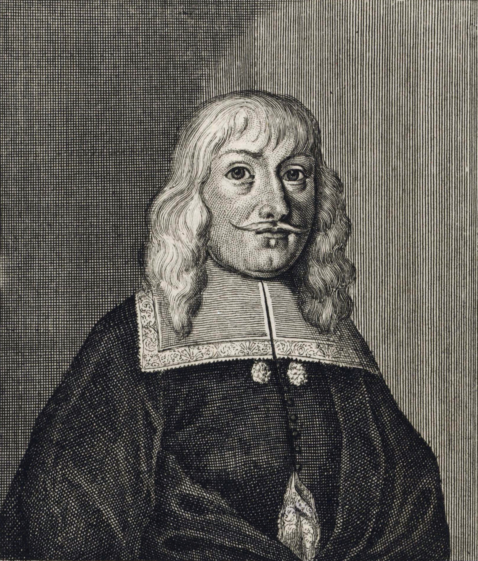 Depicted person: Enoch Gläser